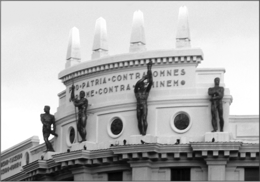 Cagliari. Legione dei Carabinieri. 1932—1934.